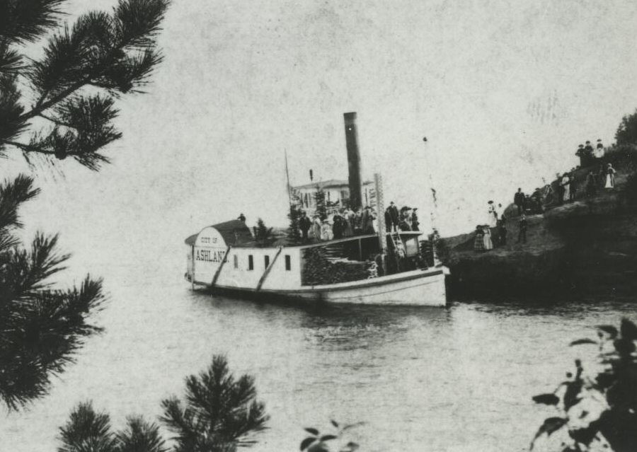 The steamer City of Ashland before she burned